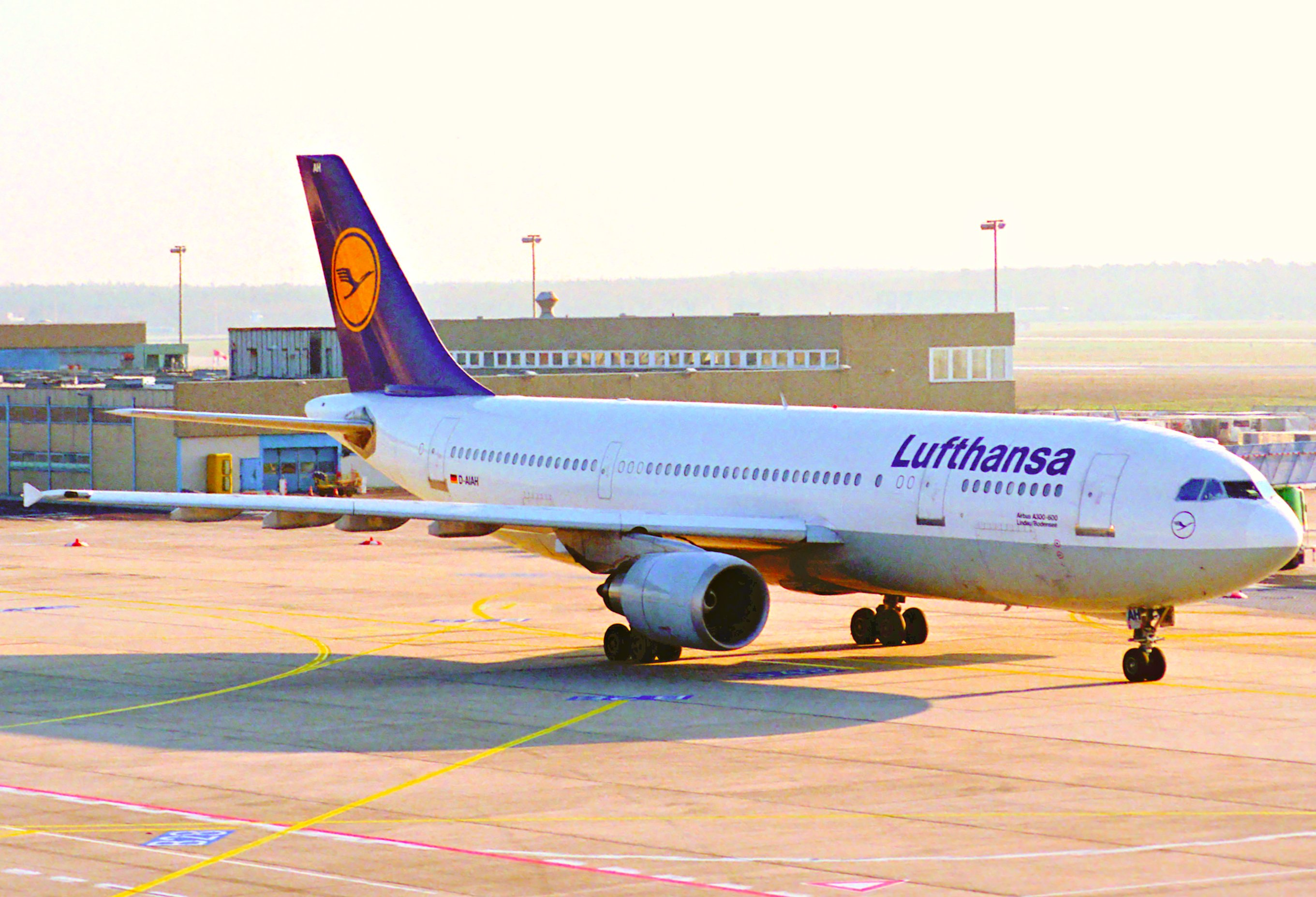 First flight: December 31, 1986... 12/03/1987 Lufthansa D-AIAH named Lindau/Bodensee - stored 07/2009